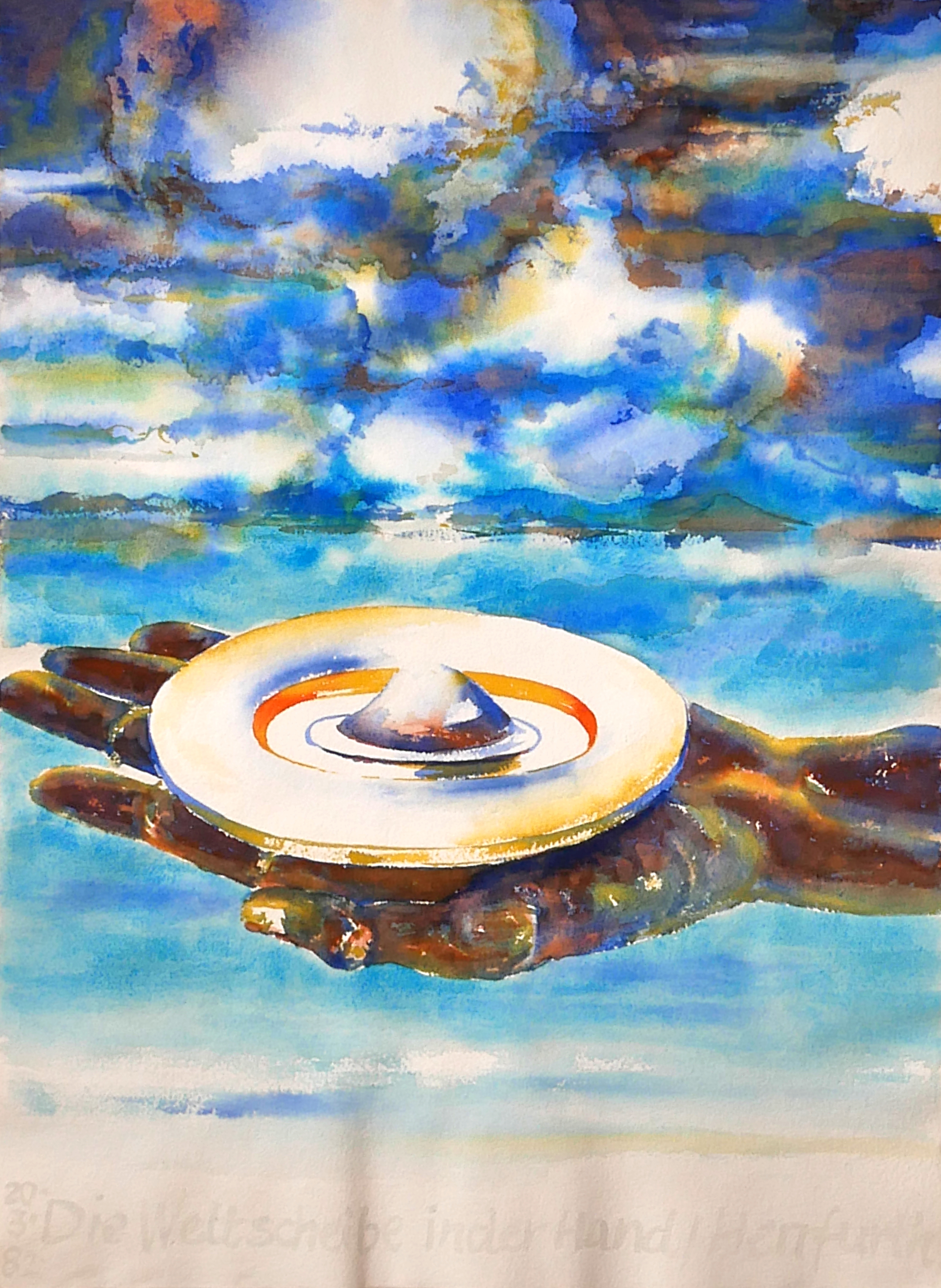 Karl-Heinz Herrfurth, artist from Berlin (Germany), aquarell on paper, titled ,,The world's disk in the hand", dated 20.03.1982